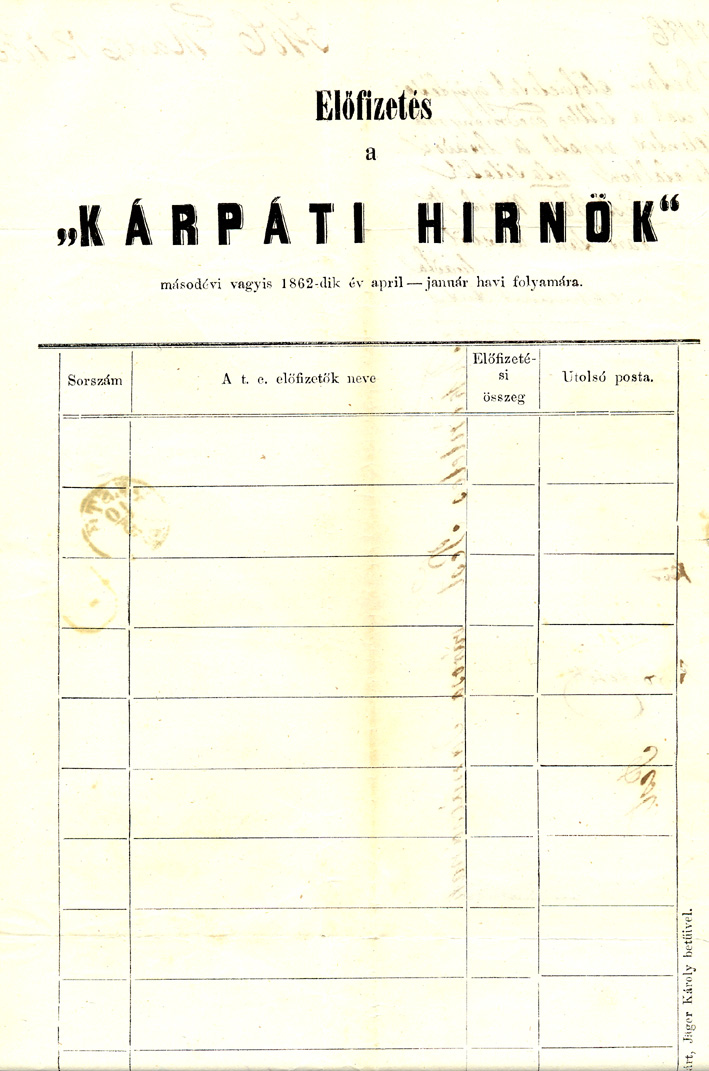 An old subscription form for the Hungarian journal Kárpáti Hírnök (Carpathian Courier) from 1862. The editor of the journal was Károly Mészáros.